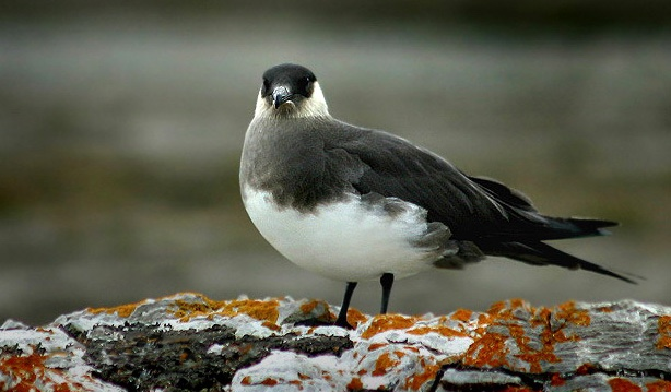 Arctic Skua at Svalbard, Norway.